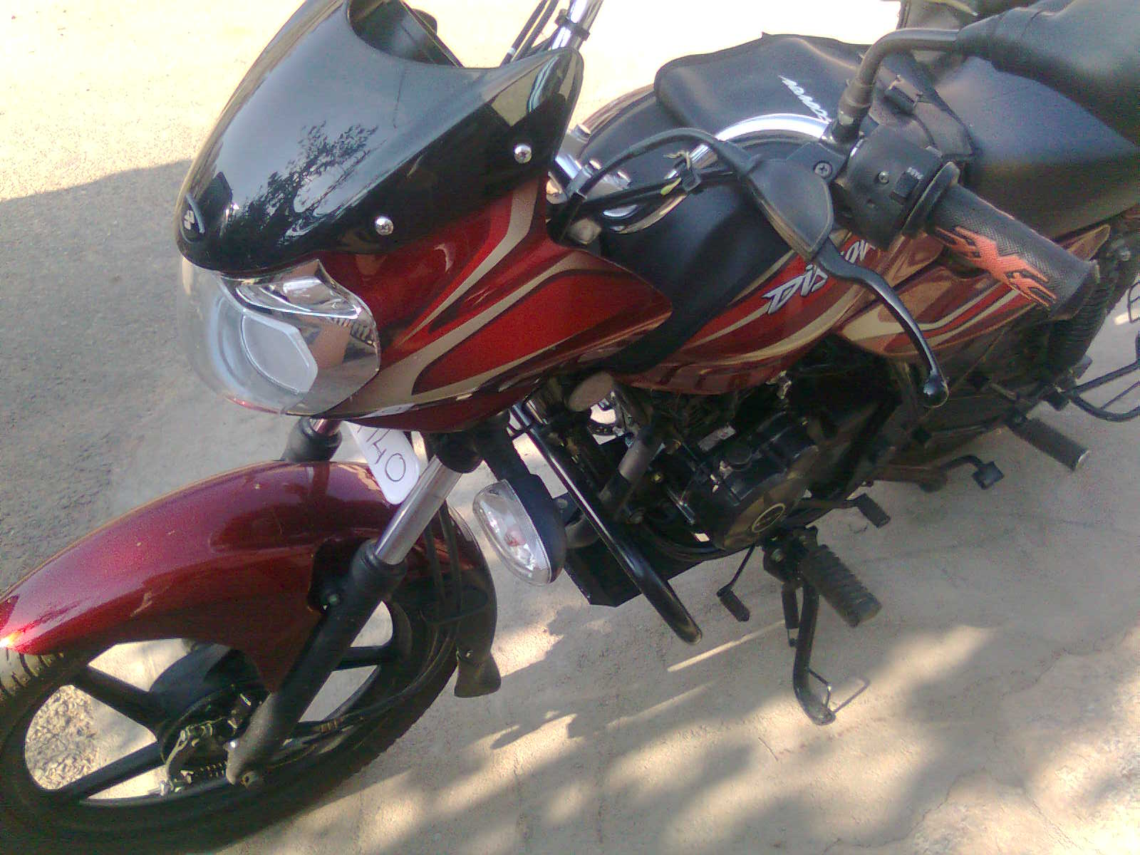 Bajaj Discover DTS Si